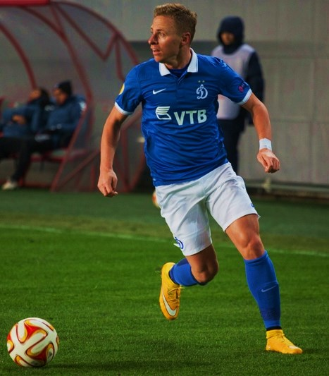 Balázs Dzsudzsák